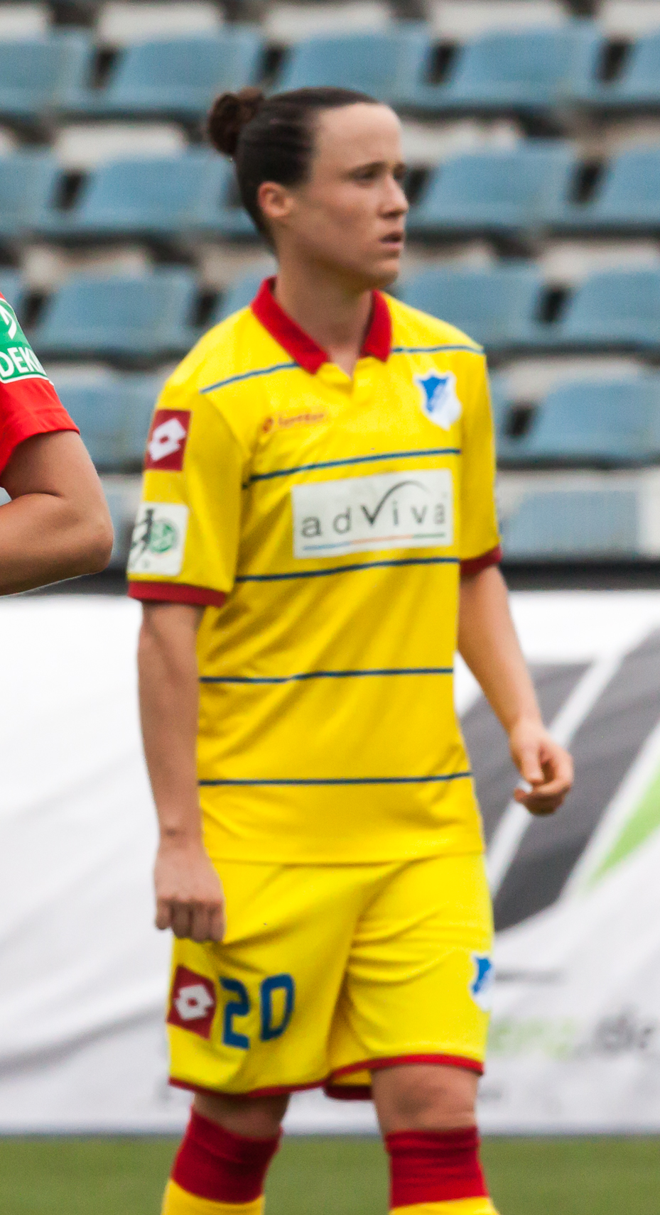 German Women Bundesliga soccer game: FF USV Jena vs. TSG 1899 Hoffenheim, 2014-10-11, at Ernst-Abbe-Sportfeld Jena.